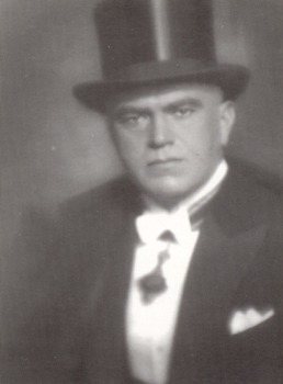 Petru Groza - Romanian politician, best know as Prime Minister of the first Communist Party-dominated governments under Soviet occupation during the early stages of the Communist regime in Romania.